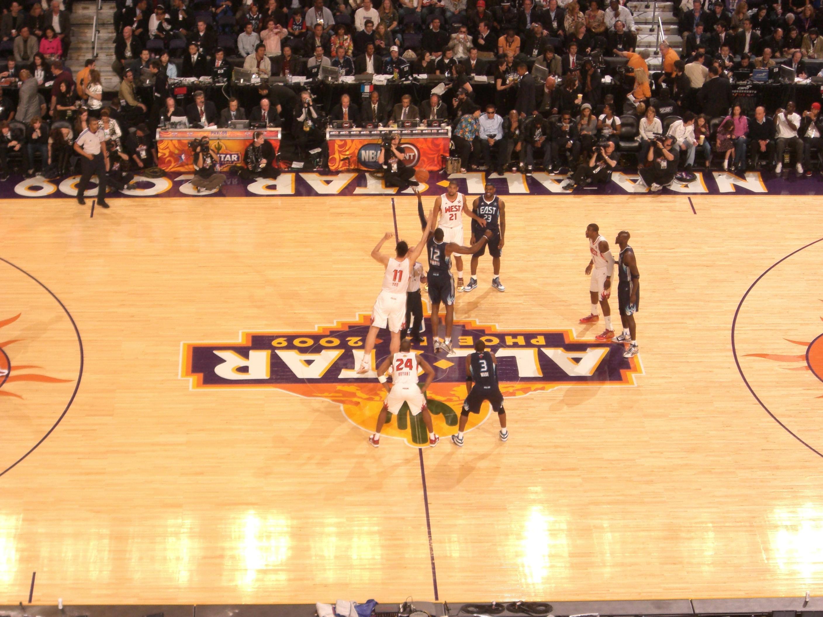 Tip Off of the 2009 NBA All Star Game